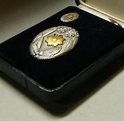 This picture is awarded Medals of Japan's National Police Agency